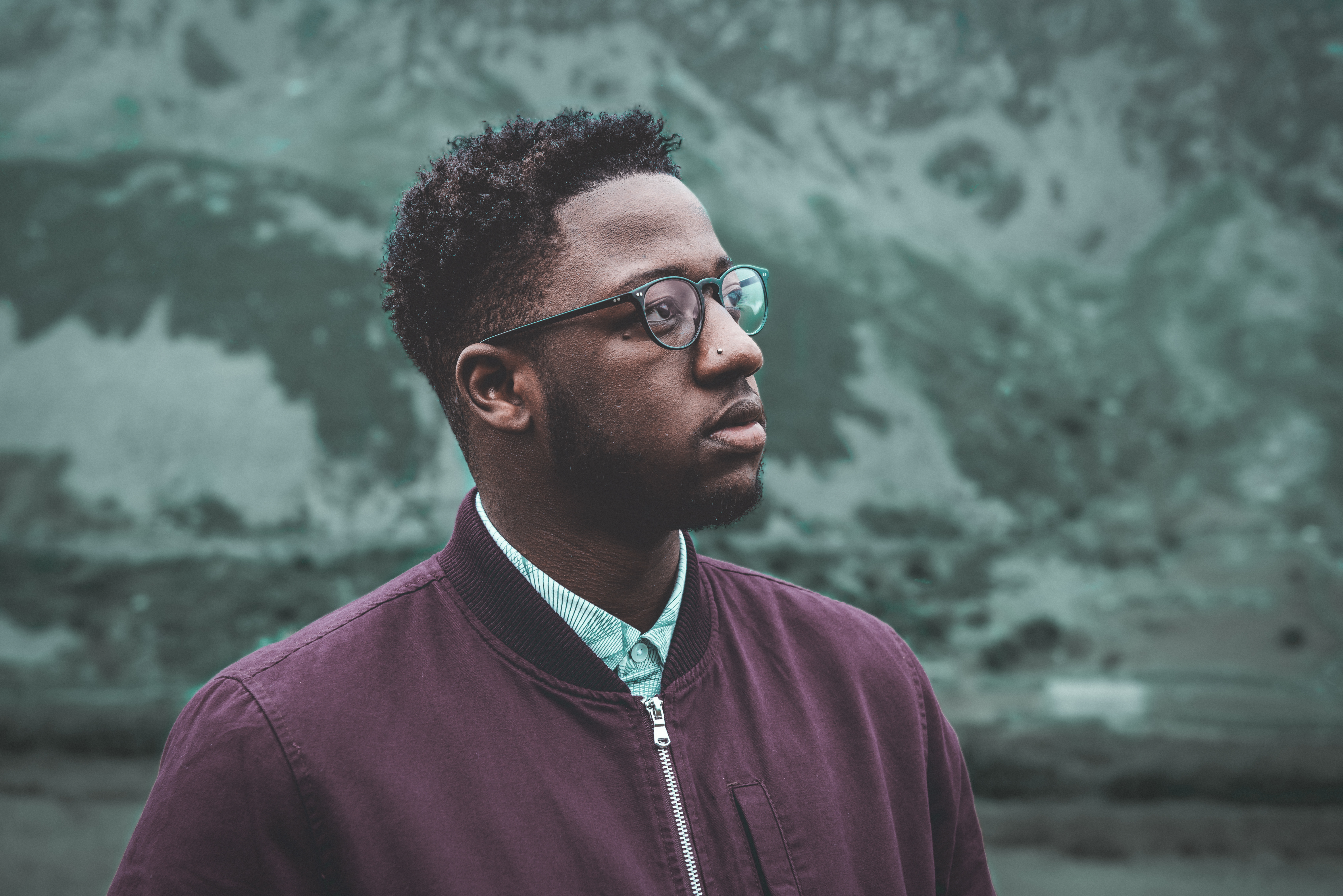 Kelvin Jones on the set of filming Call You Home video in Snowdonia, Wales